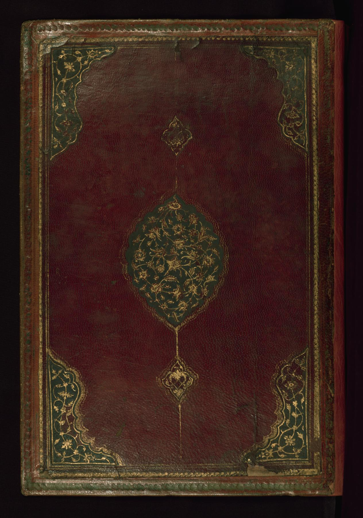 Walters manuscript W.657 is an illustrated and illuminated composite volume of three poetic texts: the Khamsah (quintet) of Nizami Ganjavi (died 605 AH/AD 1209), the Khamsah (quintet) of Amir Khusraw Dihlavi (died 725 AH/AD 1325), and the Timurnamah (Epic of Timur) by 'Abd Allah Hatifi (died 927 AH/AD 1520), also known as the Zafarnamah. The texts are written in black Naskh script, with titles, section headings, and incidentals in white or red Tawqi'/Riqa' script. It was produced in the 10th century AH/AD 16th, in either India or Safavid Iran. The binding is not original to the manuscript. According to a note on front flyleaf iia, the codex was re-bound and restored by a bookbinder of Tabriz, Khwand Mulla Mahdi Sahhaf-i Tabrizi in 1295 AH/AD1878.